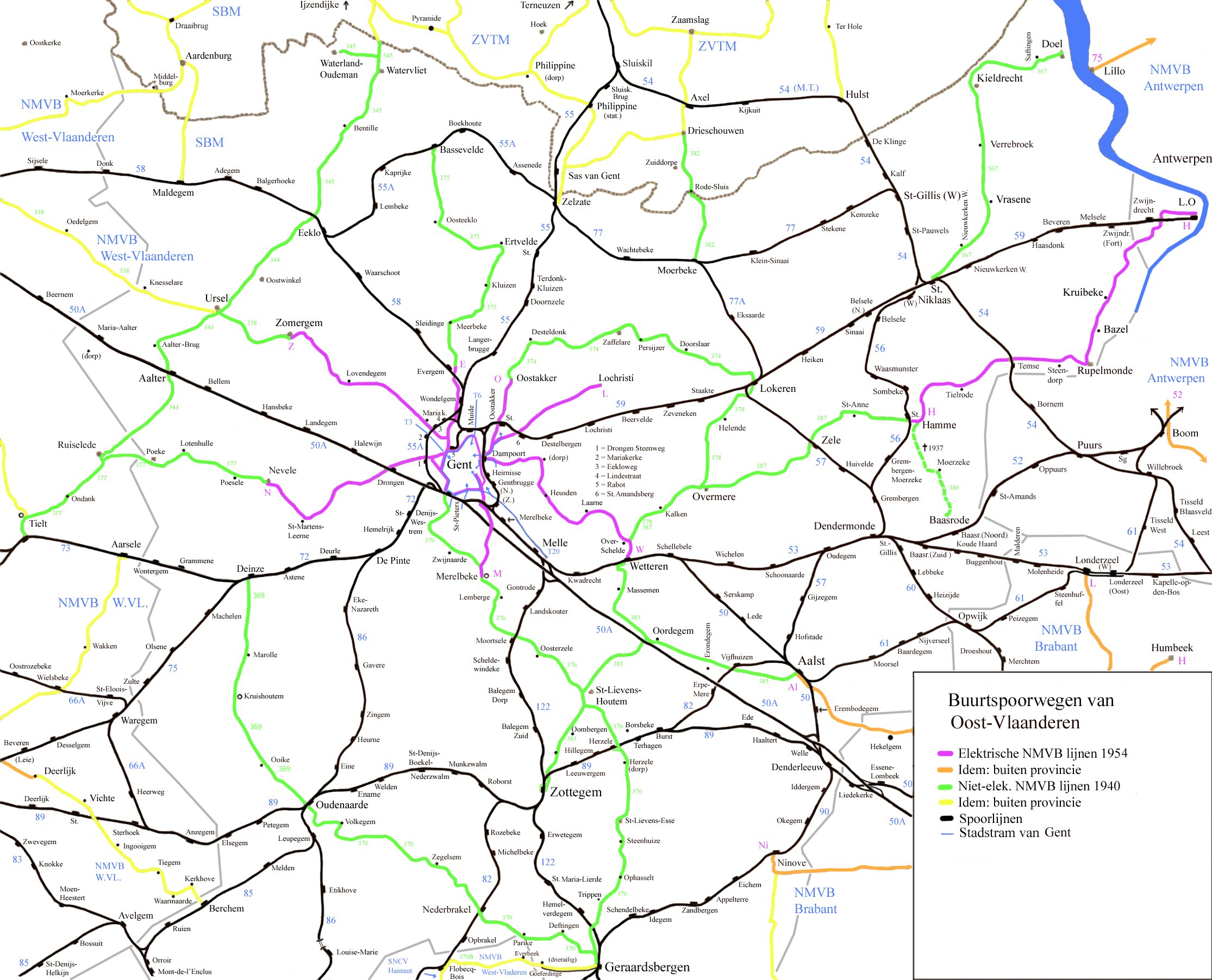 Map off the vicinal railways in the province off East Flandres. Purple lines = electrified lines in 1954 Brown lines = idem, but outside the province Green lines = non-electrified lines in 1940 Yellow lines = idem, but outside the province Blue lines = Some lines off the Gent citytram Black lines = Railways (normal gauge)